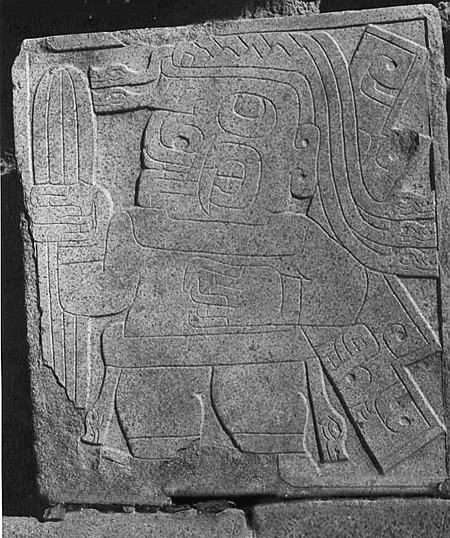 The square and circular stone decorated with crimps showing a procession of Jaguars, one of them bearing, in the right hand, the San Pedro cactus (Echinopsis pachanoi). 1000 A. C. is the probable date of construction of the square ring of Chavin de Juantar.